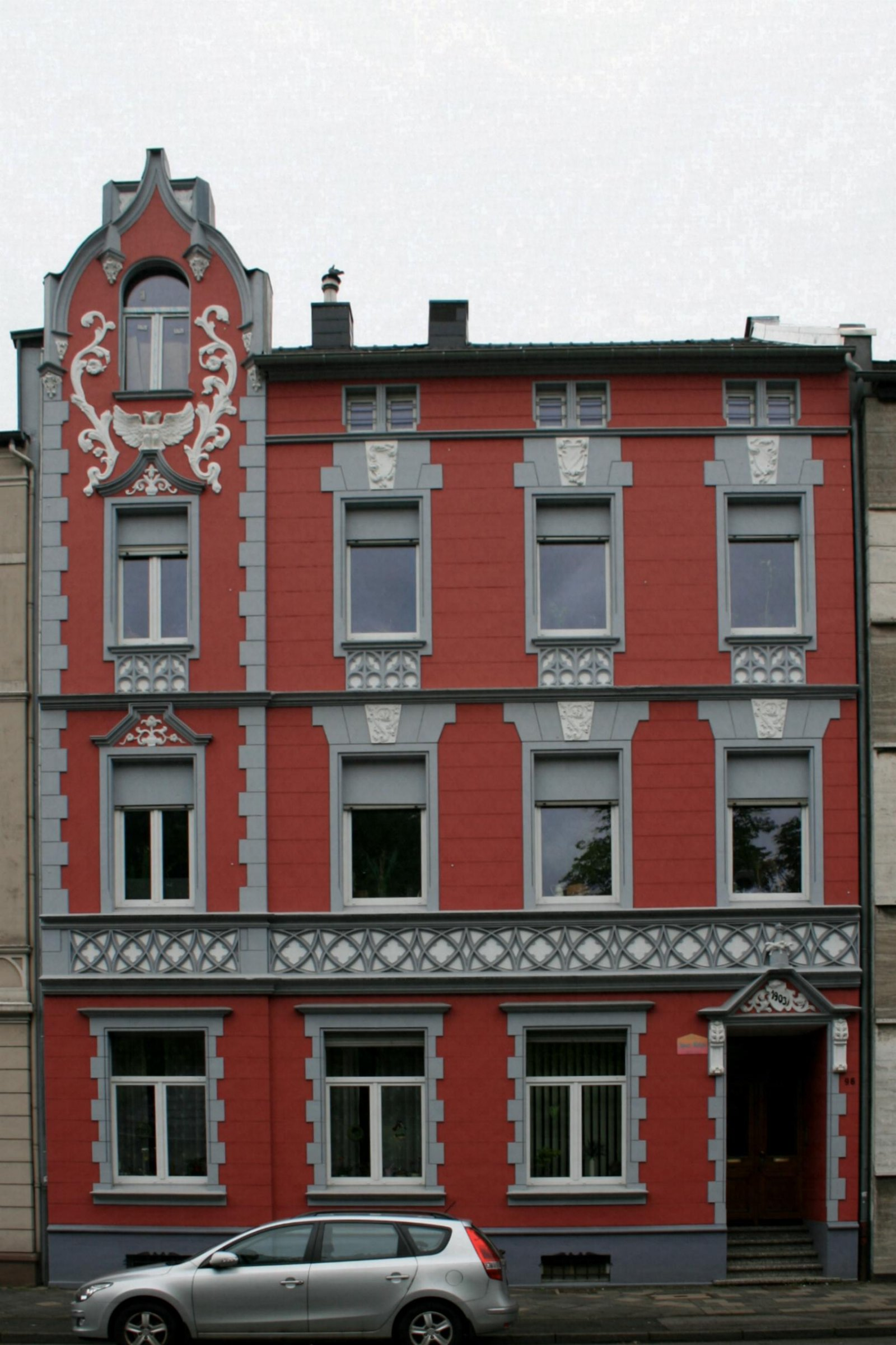 Cultural heritage monument No. V 010 in Mönchengladbach